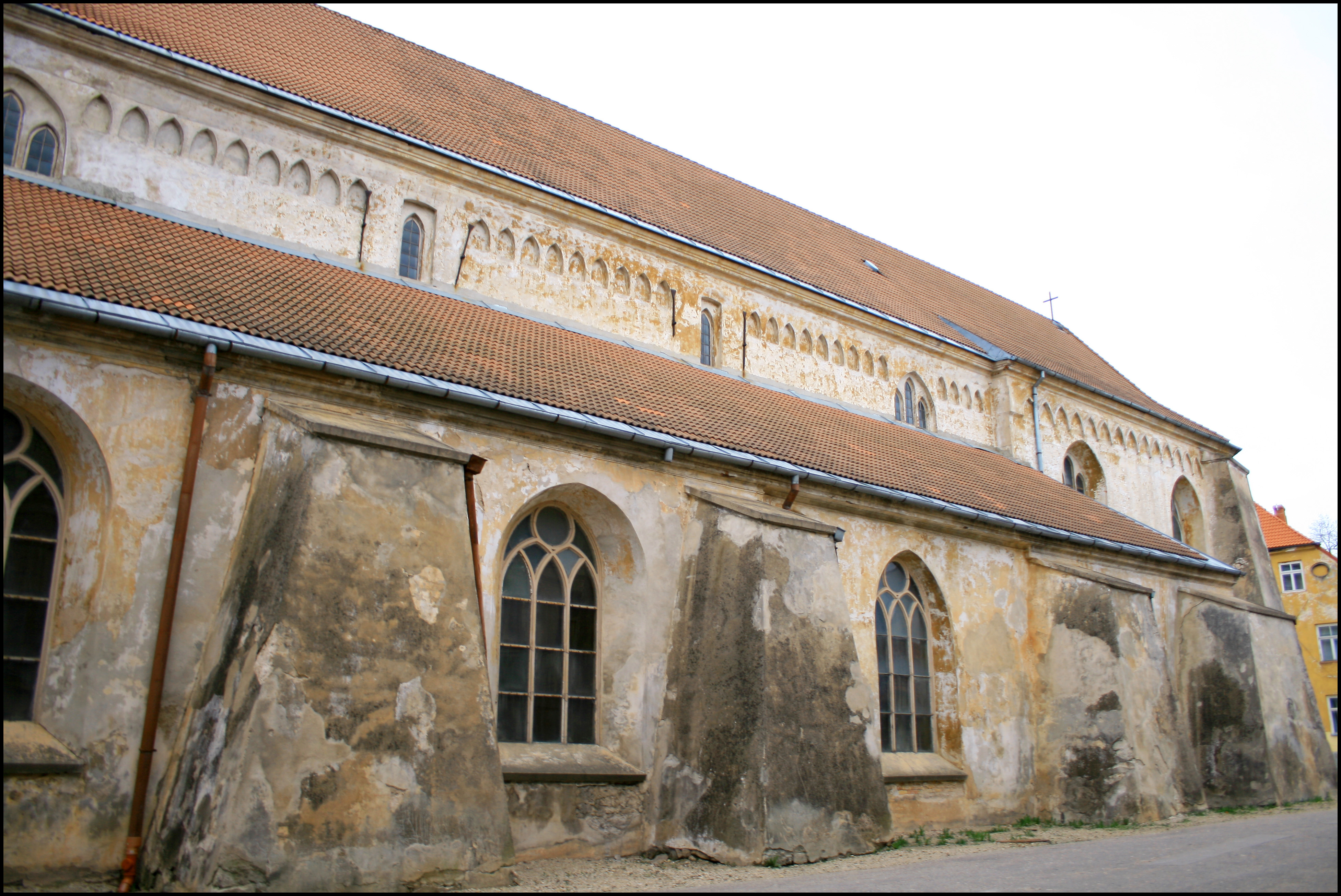 Cēsis Saint John the Baptist Evangelical Lutheran ChurchLatviešu: Cēsu Svētā Jāņa Kristītāja evaņģēliski luteriskā baznīca